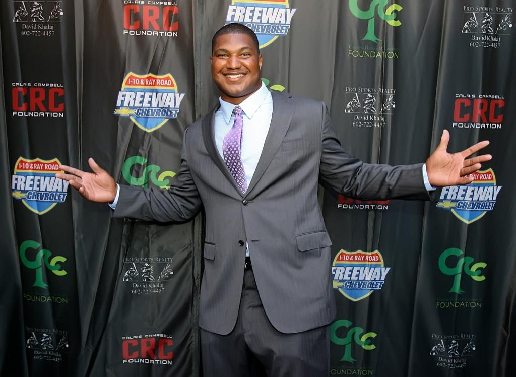 Calais at a CRC Foundation Fundraiser